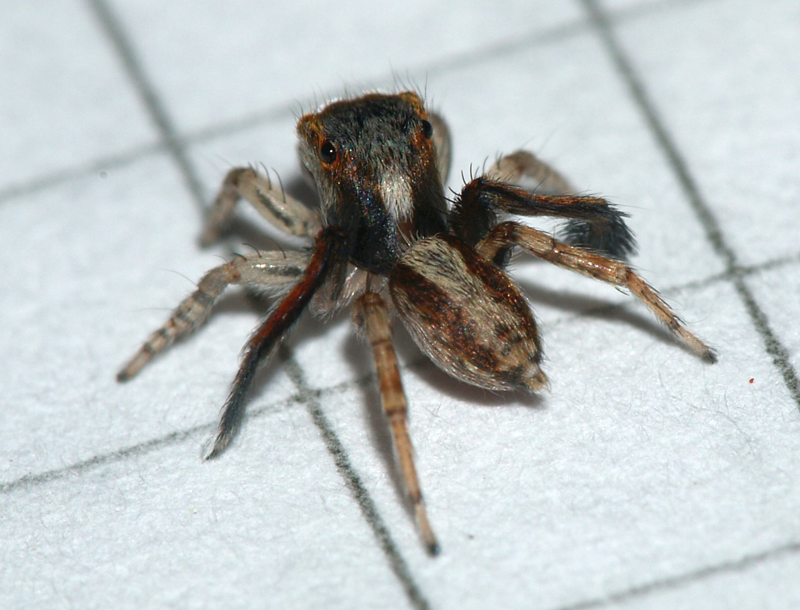 male Saitis barbipes from Menton, French Riviera (43°46′32″N 07°30′02″E / 43.77556°N 7.50056°E). One square on paper has a side length of 5 mm.